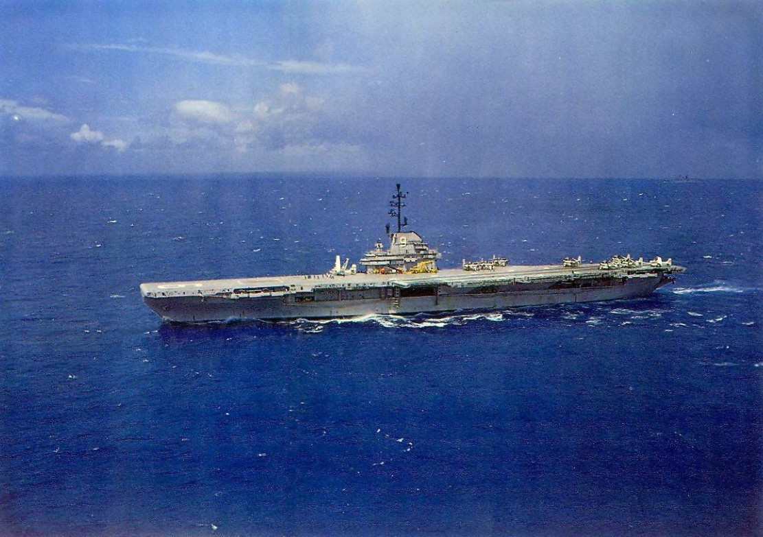 The U.S. Navy aircraft carrier USS Essex (CVS-9) underway. Essex was deployed with Carrier Anti-Submarine Air Group 60 (CVSG-60) to the Mediterranean Sea from September to December 1960.